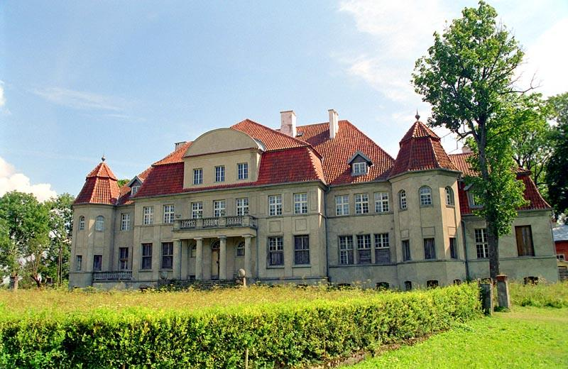 Biala Olecka Palace in Poland